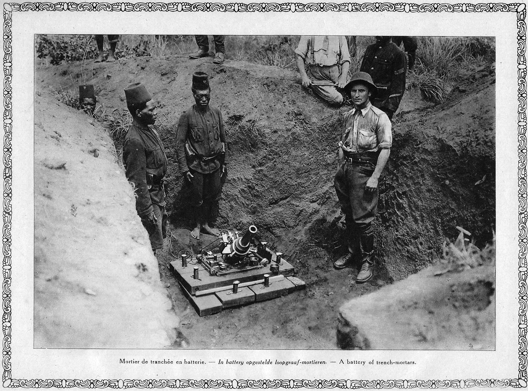 Mortar installation in African WW I trench